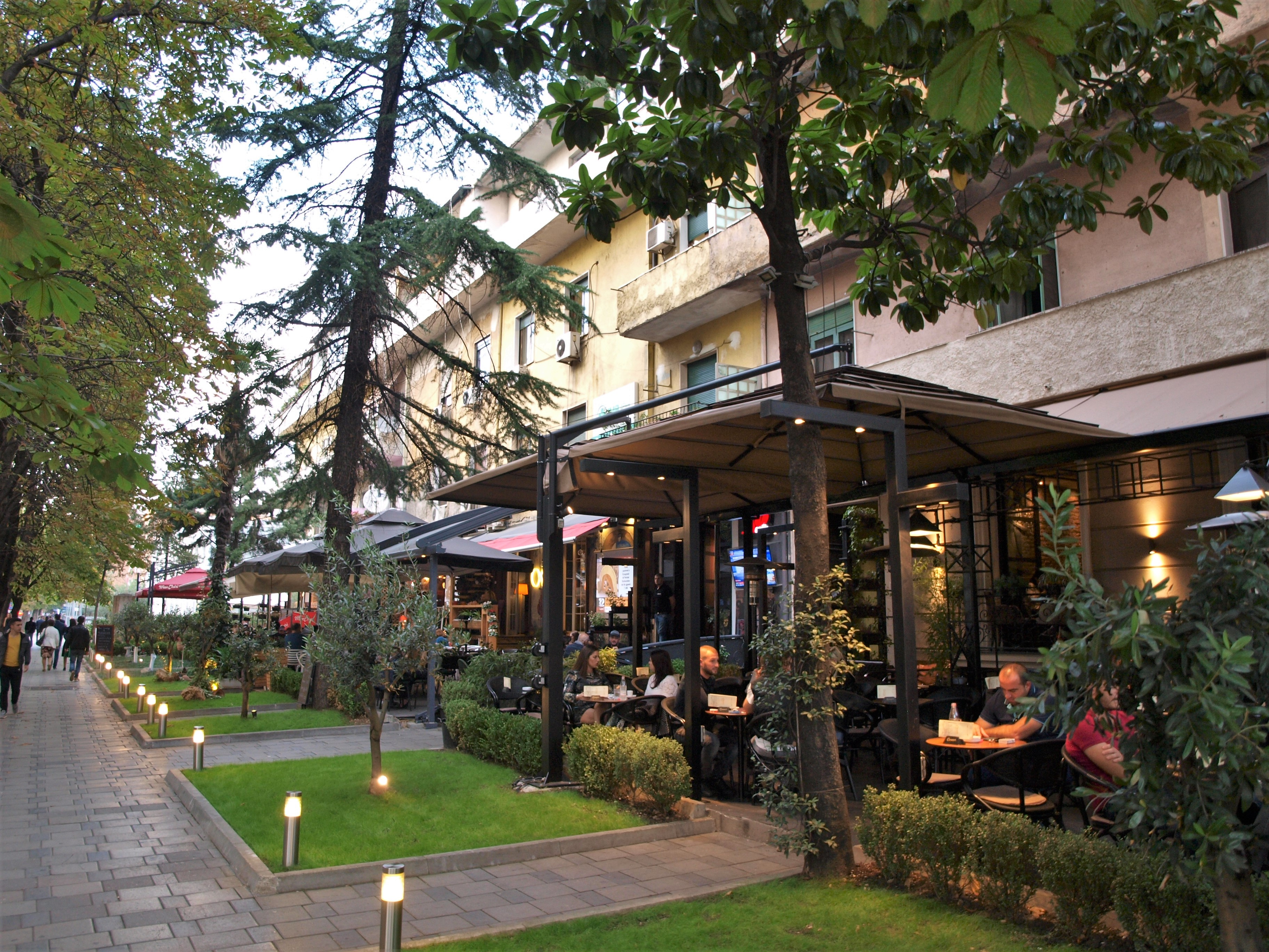 Streets and Cafes of Tirana